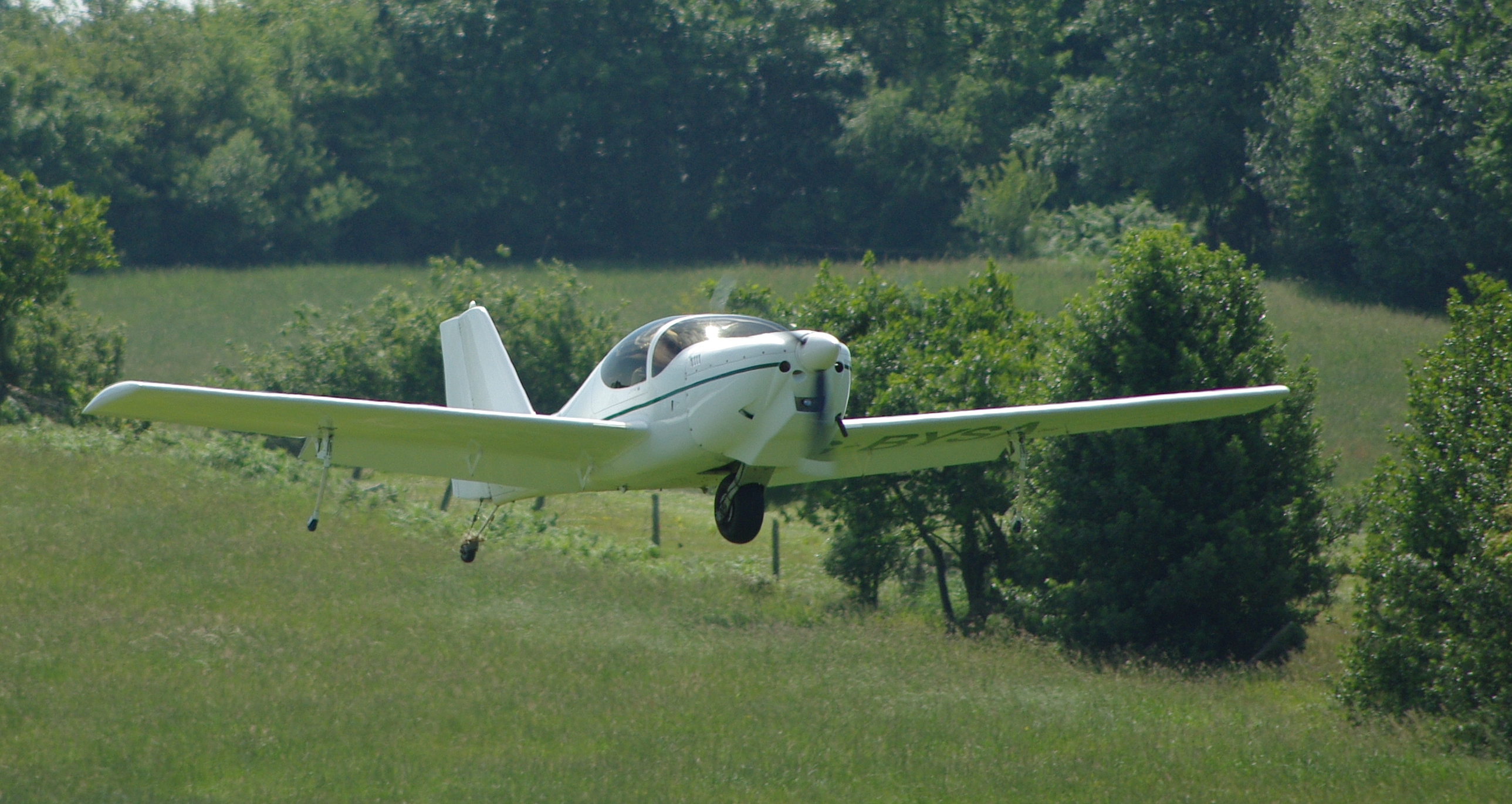 Europa XS G-BYSA takes off from Coal Aston airstrip, showing monowheel main undercarriage